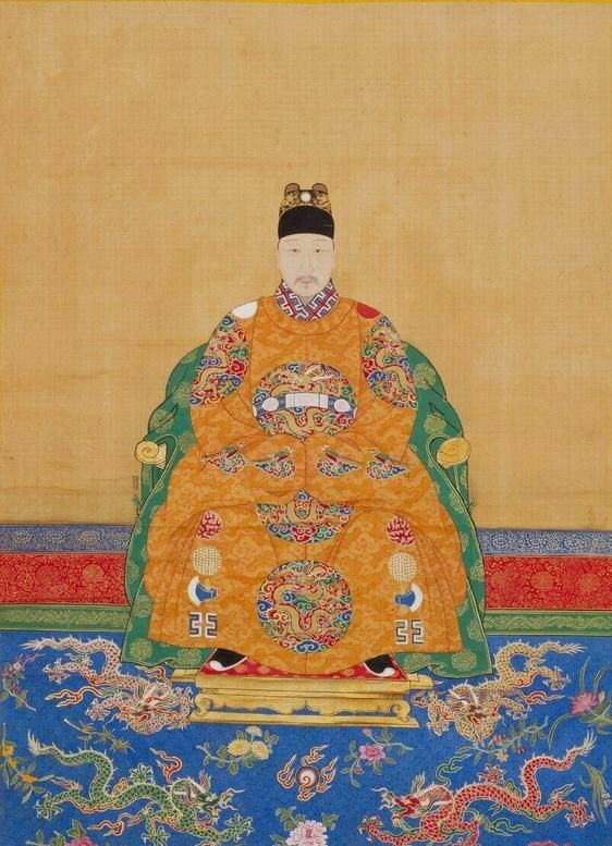 Taichang Emperor (1585—1620) Hanging Scroll, Colors on Silk, Palace Museum Beijing, see [1]